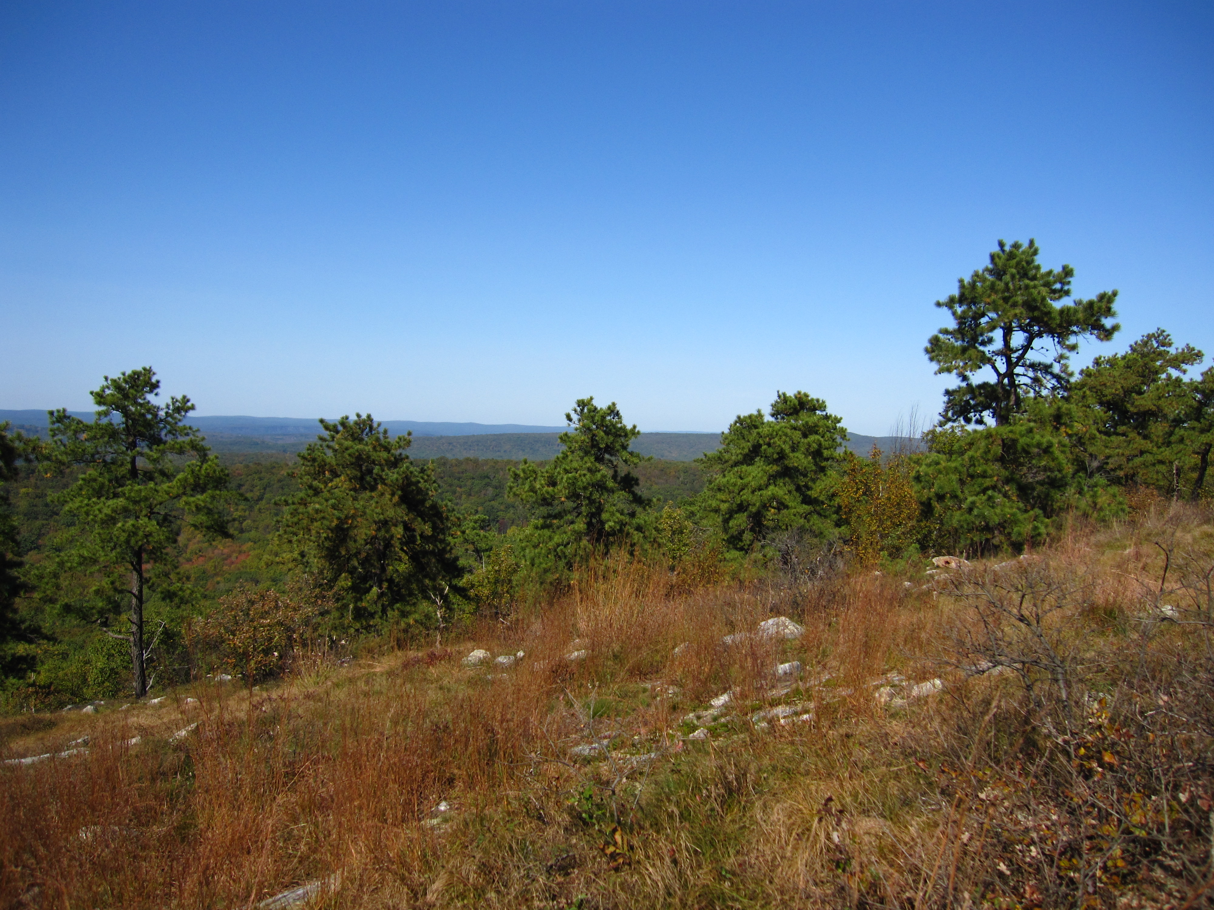 Pitch Pine Pinus rigida, with Bear Oak Quercus ilicifolia scrub. Kittatinny Mountain, Branchville, New Jersey, USA.